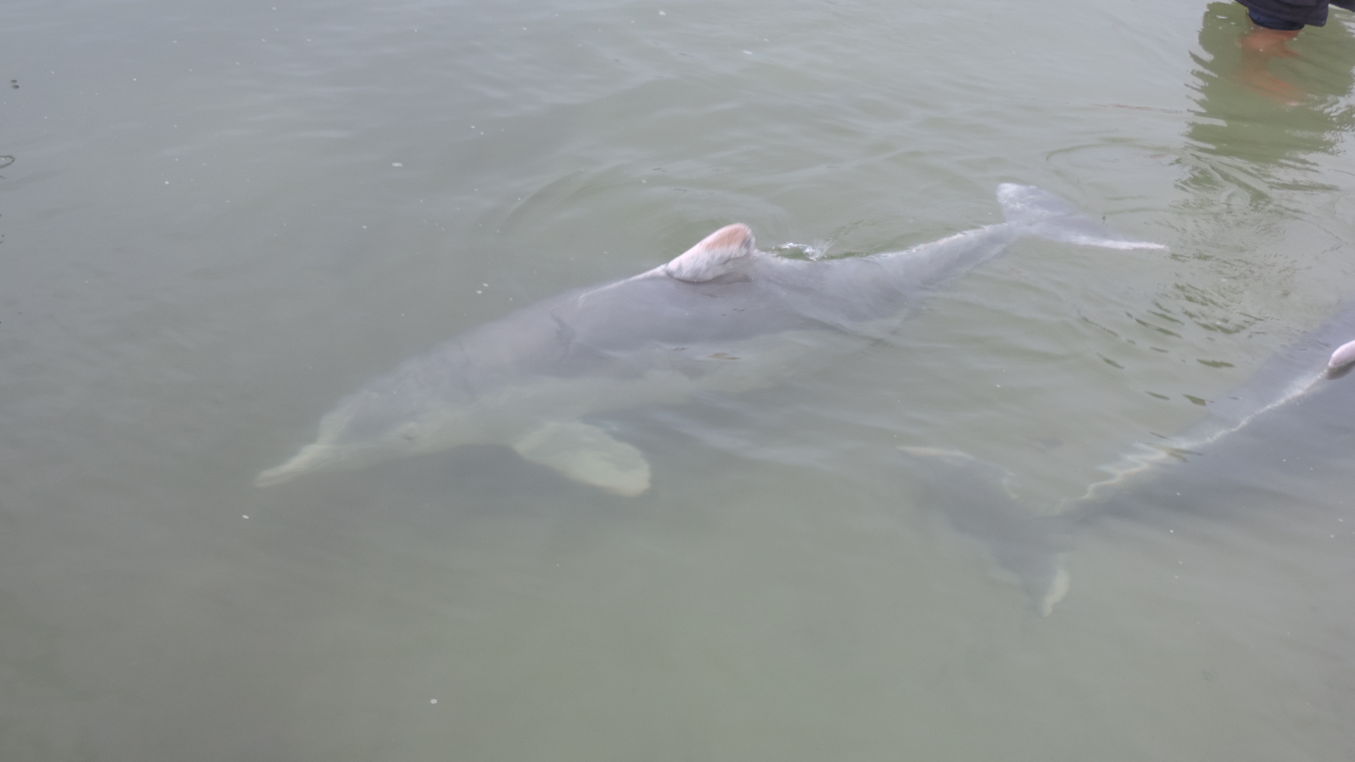 Australian humpback dolphins, Tin Can Bay, 2016